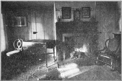 Marantette Manor, Mendon MI, interior